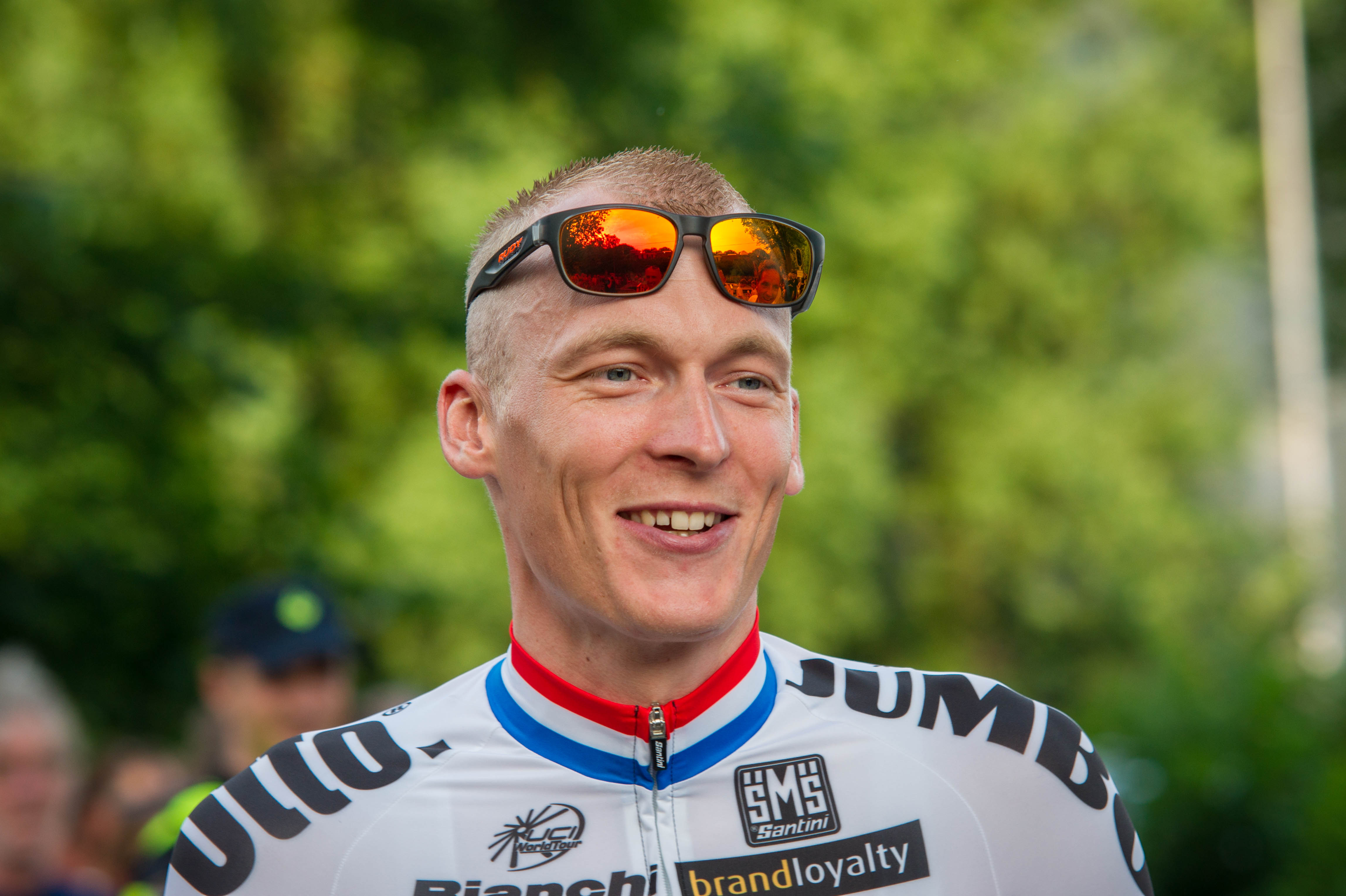 Dutch cyclist Robert Gesink at the team presentation before the Tour de France start in Utrecht.